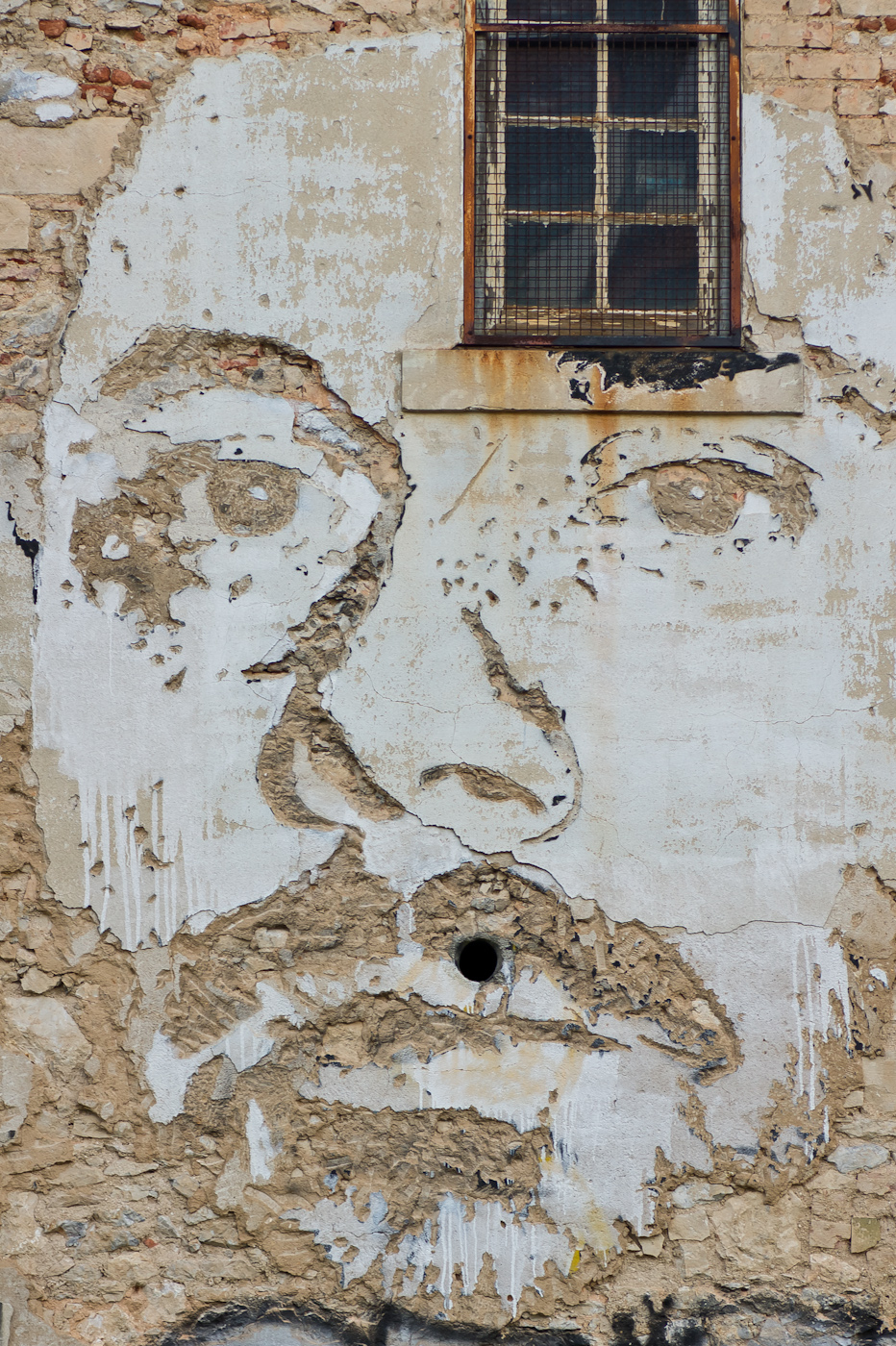 Proyecto Arte Urbana Crono Lisboa Vhils cronolisboa.tk/